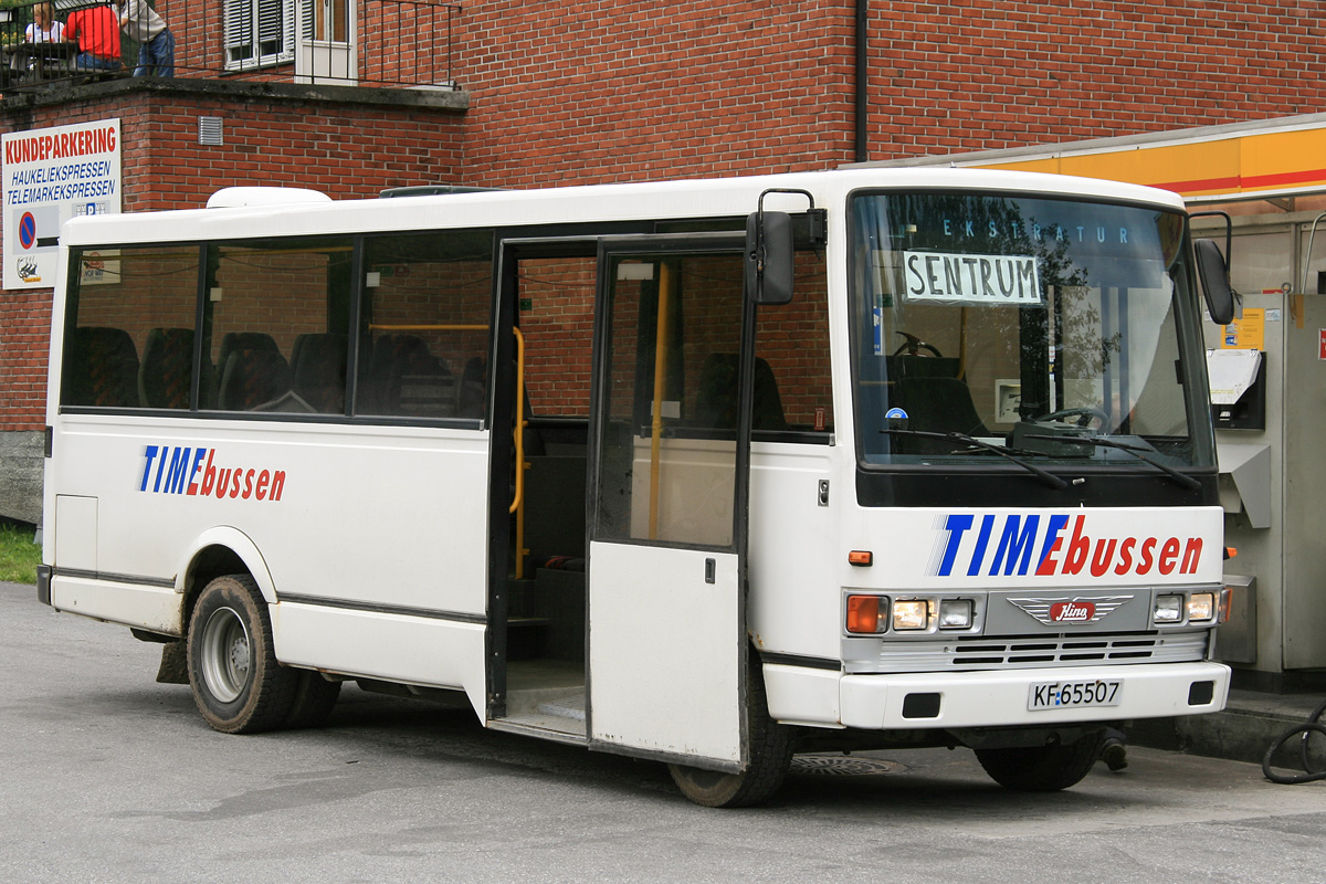 Hino Rainbow RB145SA, converted to low-entry in Norway.